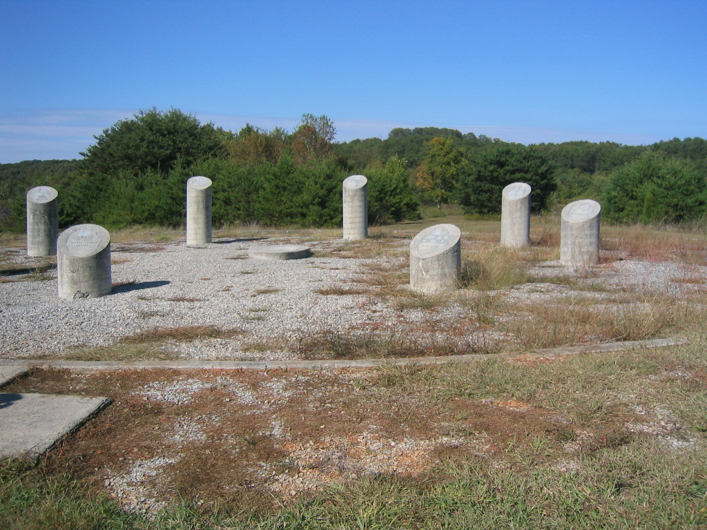 Chota Memorial in Monroe County, Tennessee. Taken by John T Frost on Oct 23, 2005. For inclusion in the Wikipedia article "Oconostota".